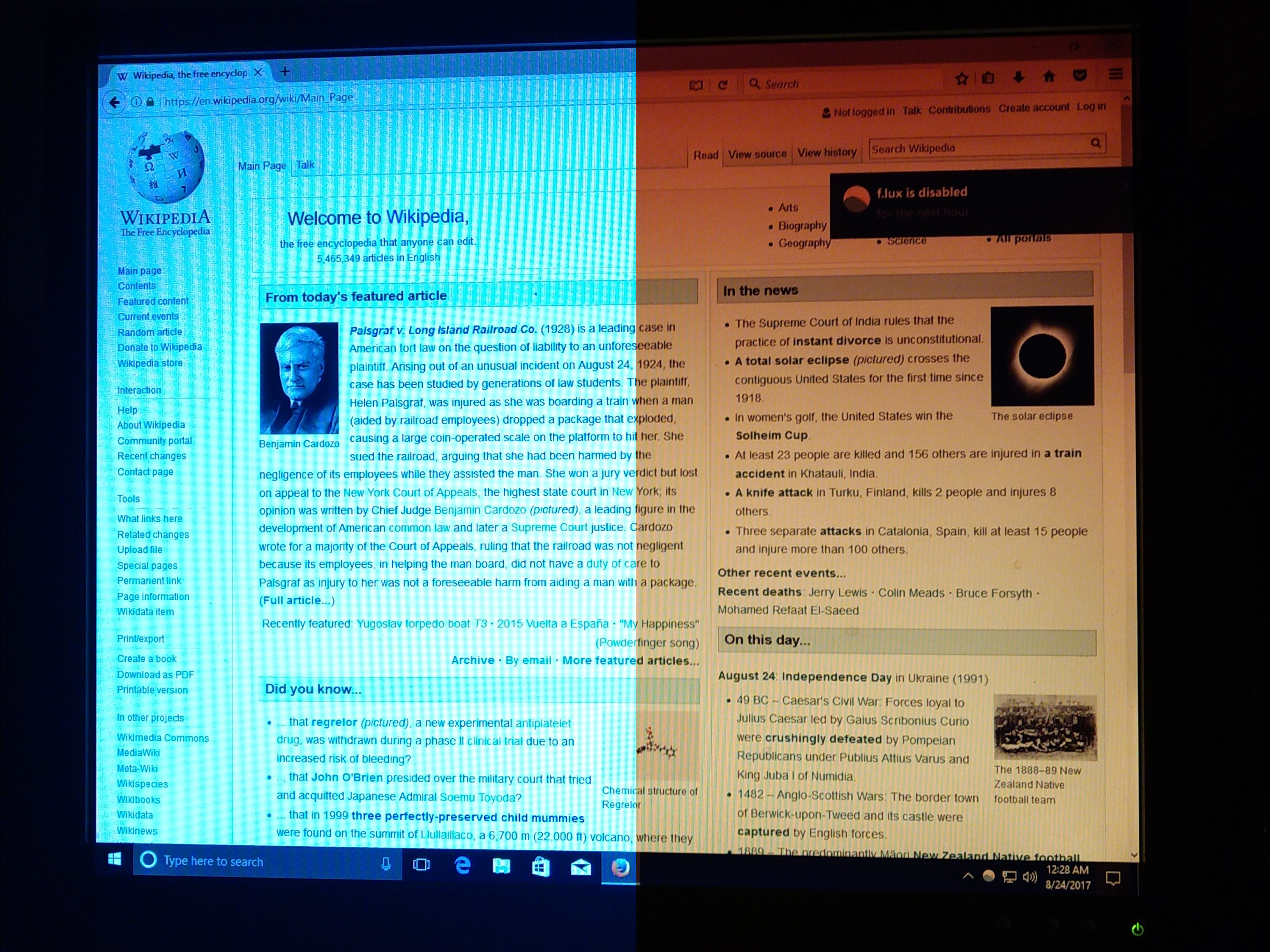 Two photographs of a computer screen, coloration affected by the program f.lux. Burst-fire used to produce nearly identically framed shots as the coloration changes from a default f.lux installation are disabled and the screen returns to normal. The two images were then stitched together in GIMP as closely as possible.